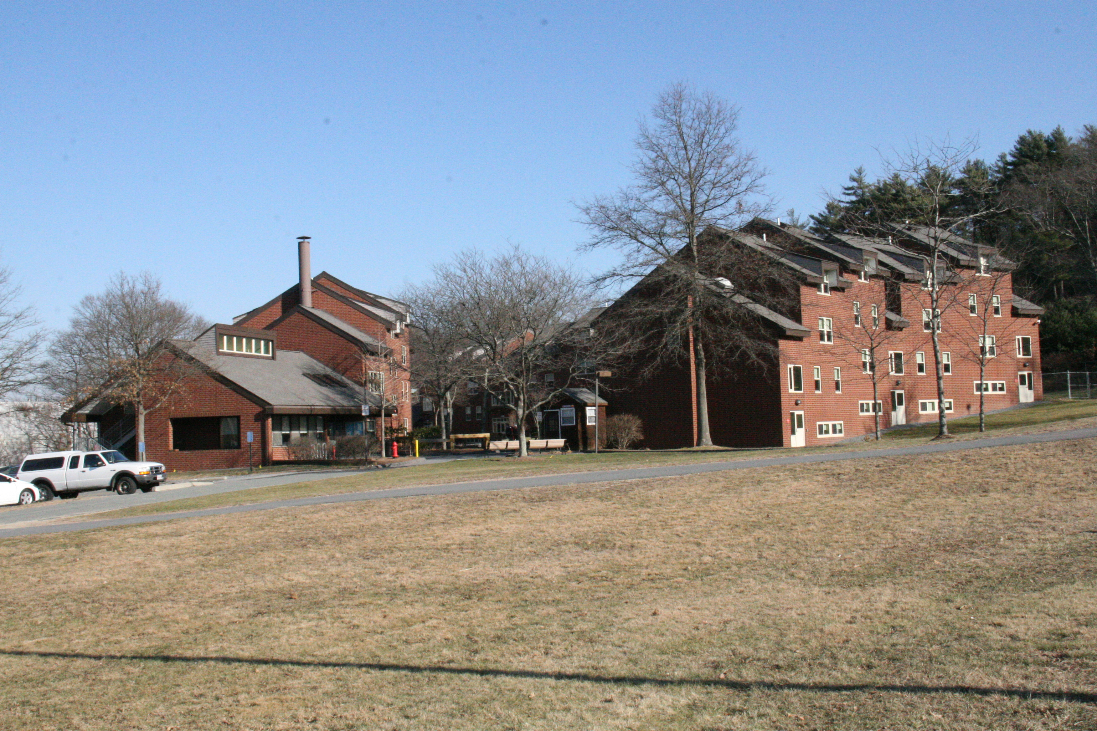 Bridgewater University 120-128 Burrill Ave Bridgewater Ma.